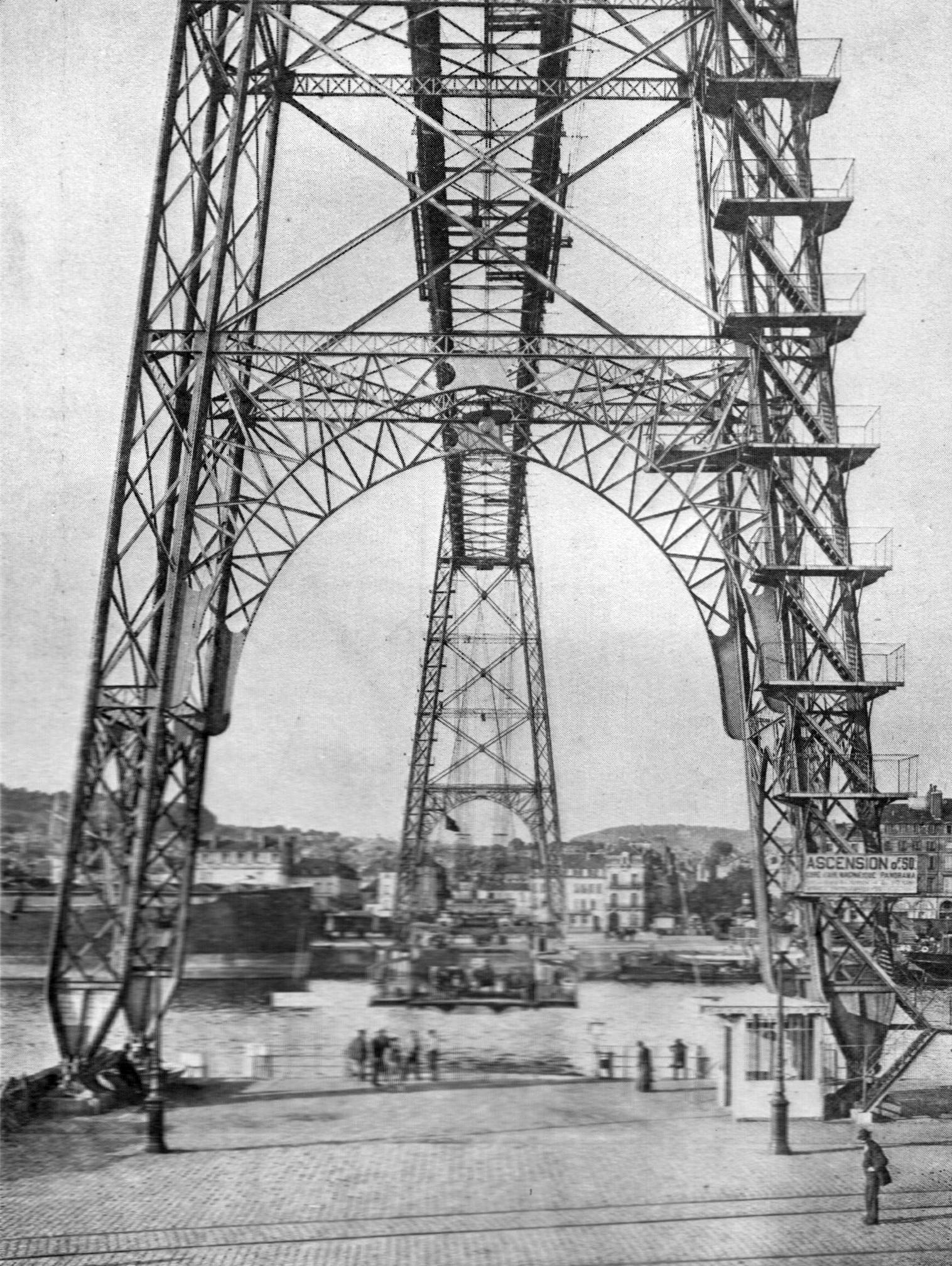 A Transporter Bridge at Rouen. Photo: E.N.A.